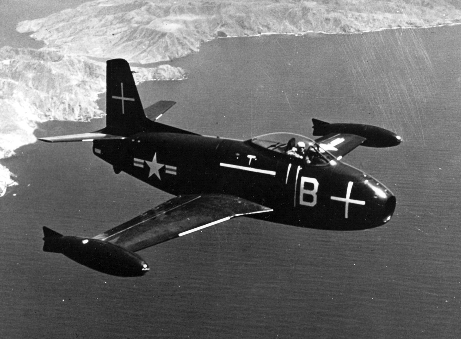 A North American FJ-1 Fury fighter in flight in about 1947. The FJ-1 was the U.S. Navy's first operational jet fighter but only 30 were built, as other types proved to be more promising. The USAF's swept-wing F-86 Sabre fighter was developed from the FJ-1. This again led to the navalized F-86, the FJ-2/-3/-4 series.